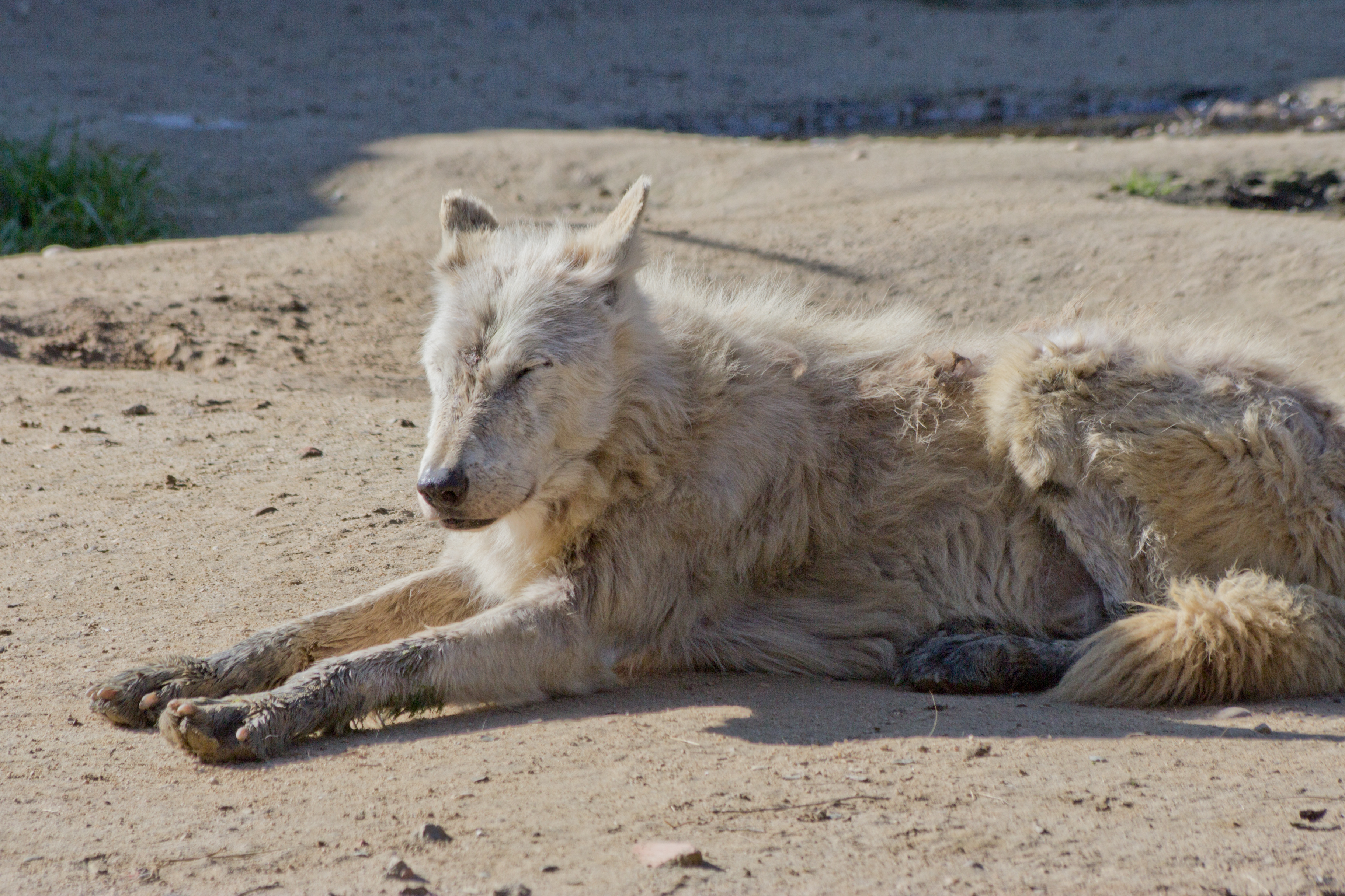 Mackenzie Valley wolf (Canis lupus occidentalis) at the Zoo of Madrid, Spain.